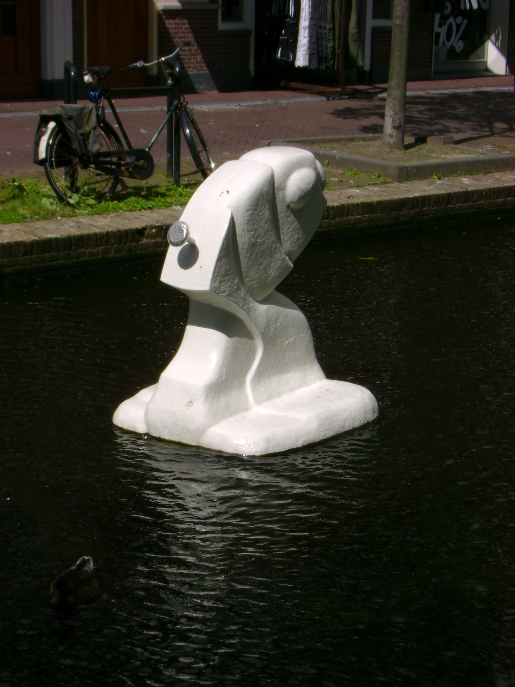 Sculpture Aquarius (one of seventeen) Molslaan by Erik de Jong in Delft/The Netherlands